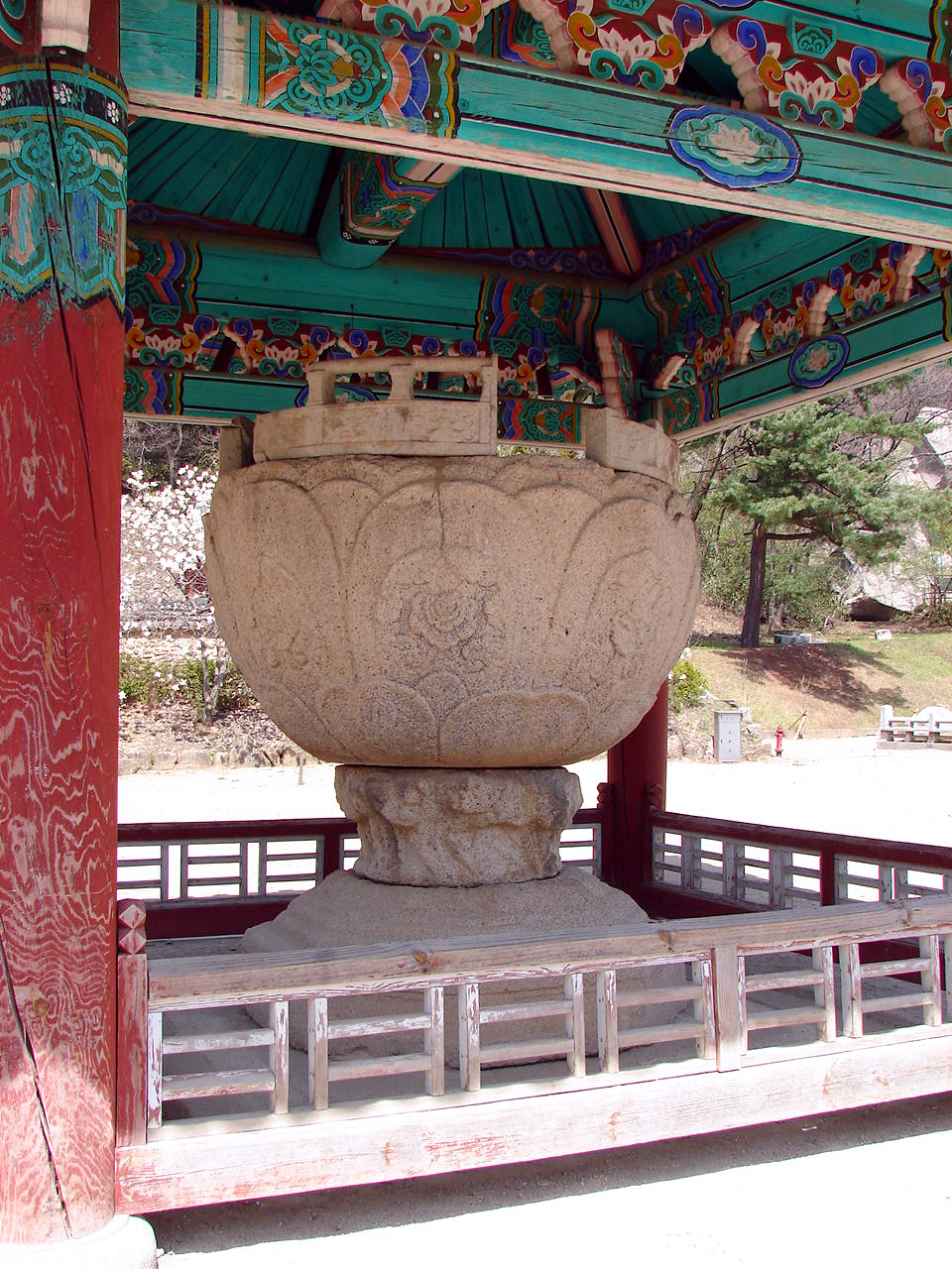 Beopjusa Seogyeonji stone basin. The basin stands on an octagonal foundation. A mushroom-shaped prop stone is installed on the foundation to support the superstructure. The basin, with its inside dug out, is made of a huge rock which is carved like a half-open lotus bud. Around the lower portion of the basin are engraved small lotus petals. Large double-petal lotus flowers are carved around the upper portion. Small stone railings are installed on the rim of the basin, under which are carved a row of parapets. The upper railings are similar in shape to those seen in Dabotap, or the Pagoda of Many Treasures at Bulguksa Temple, creating an impression of antiquity. The lower parapet wall is decorated with various patterns, adding to the beauty of the basin's appearance. This brilliant but elegant stone basin, dating from around the eighth-century Unified Silla period. Beopjusa (법주사), initially constructed in 553, is a head temple of the Jogye Order of Korean Buddhism situated on the slopes of Songnisan in Naesongni-myeon, Boeun County, in the province of Chungcheongbuk-do, South Korea. National Treasure #64.